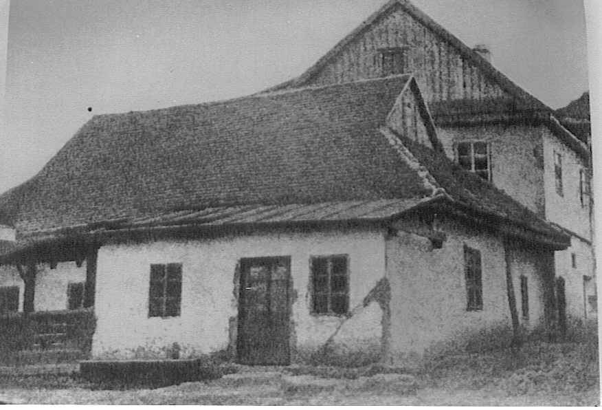 Key Words: Medzhibozh, Medzhybizh, Baal Shem Tov, Synagogue This is a photo from a postcard circa 1915. It shows the outside of the Baal Shem Tov's wooden synagogue (shul) from Medzhibozh, Ukraine. רב מכובד מאוד